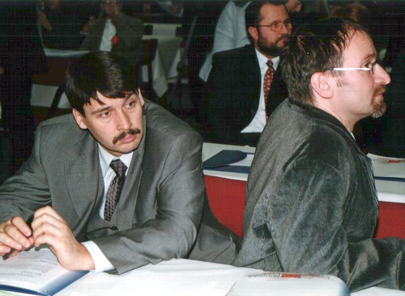 János Áder and József Szájer are Hungarian politics, 2000.